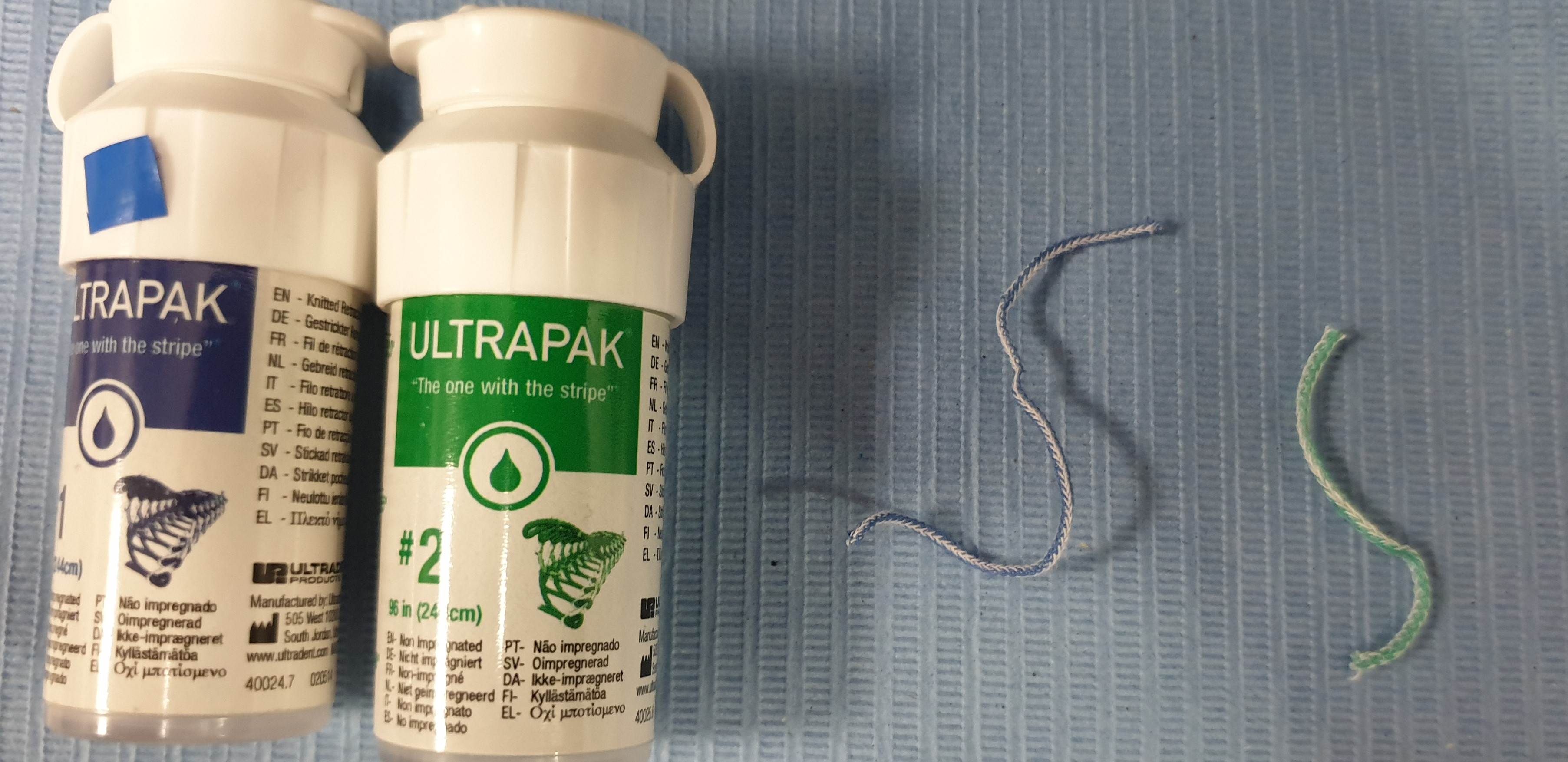 Example of gingival traction cord